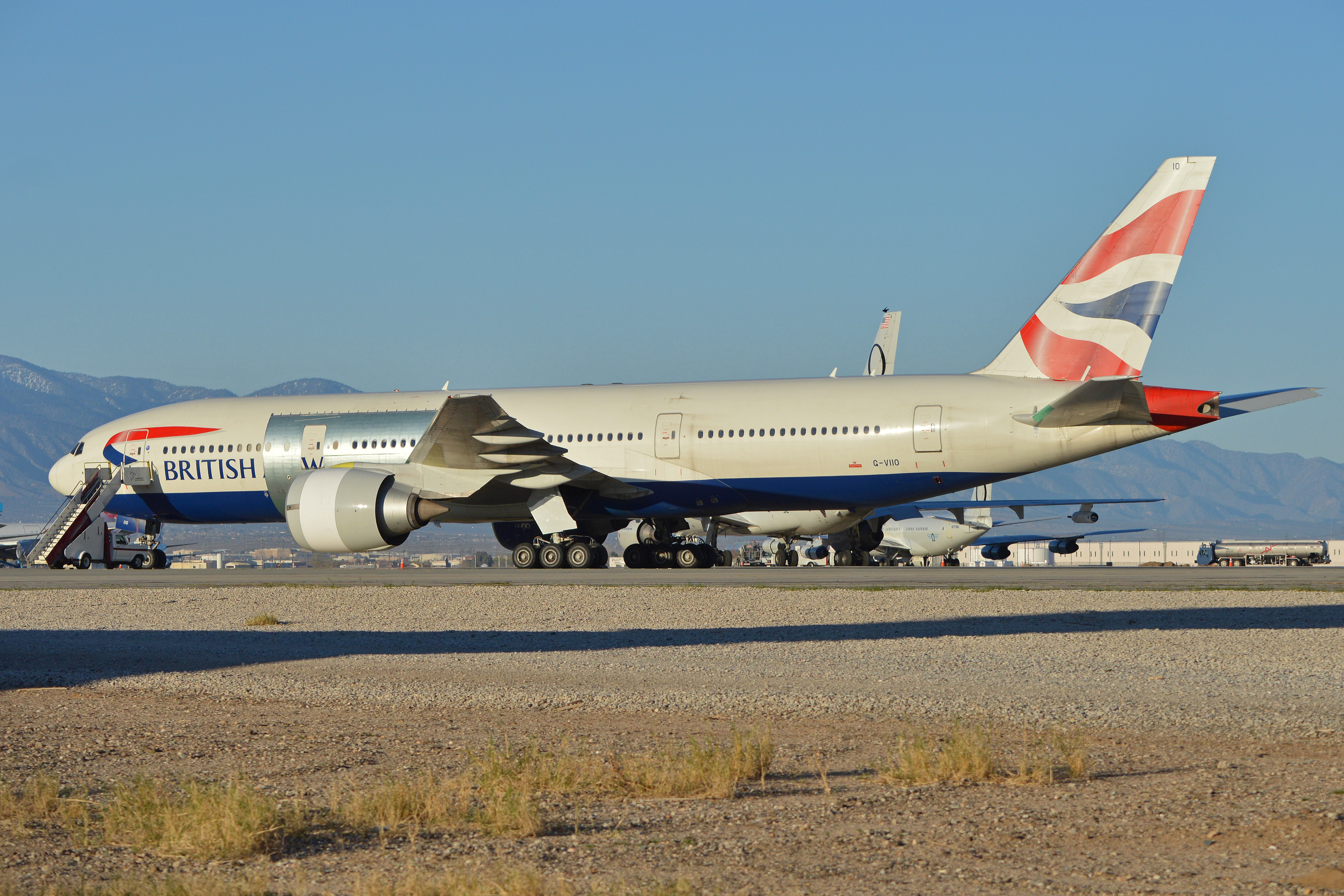 c/n 29320, l/n 182. Built 1999. Damaged on 8th September 2015 following an engine fire on the ground at Las Vegas McCarran. Repaired on site, she was flown to VCV for painting a few days before we saw her, with her fuselage repair still obvious. She was back in service in March 2016. Southern California Logistics Airport. Victorville, CA, USA. 29-2-2016